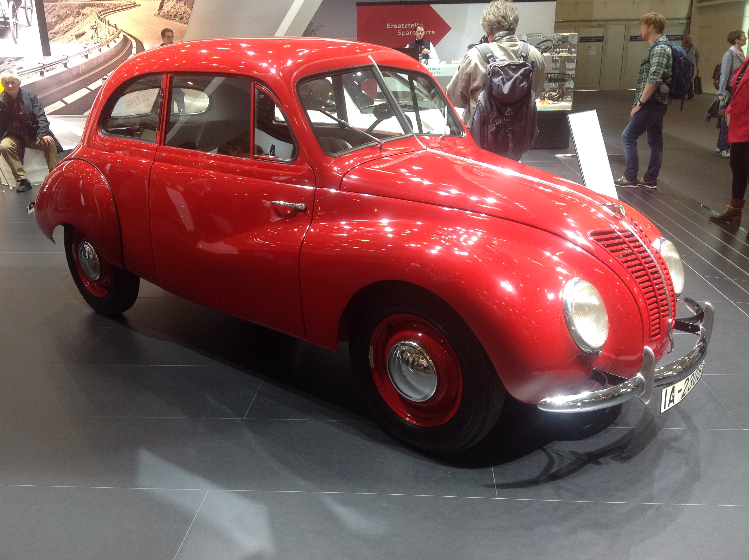 This must have looked very advanced in 1941. A similar car was built by IFA first in Zwickau in 1949, then Eisenach from 1953, called the IFA F9. The underpinnings of the this car were used in the first Wartburg. A parallel car was introduced by Auto-Union DKW in 1953 as the DKW Sonderklasse (see previous photos).